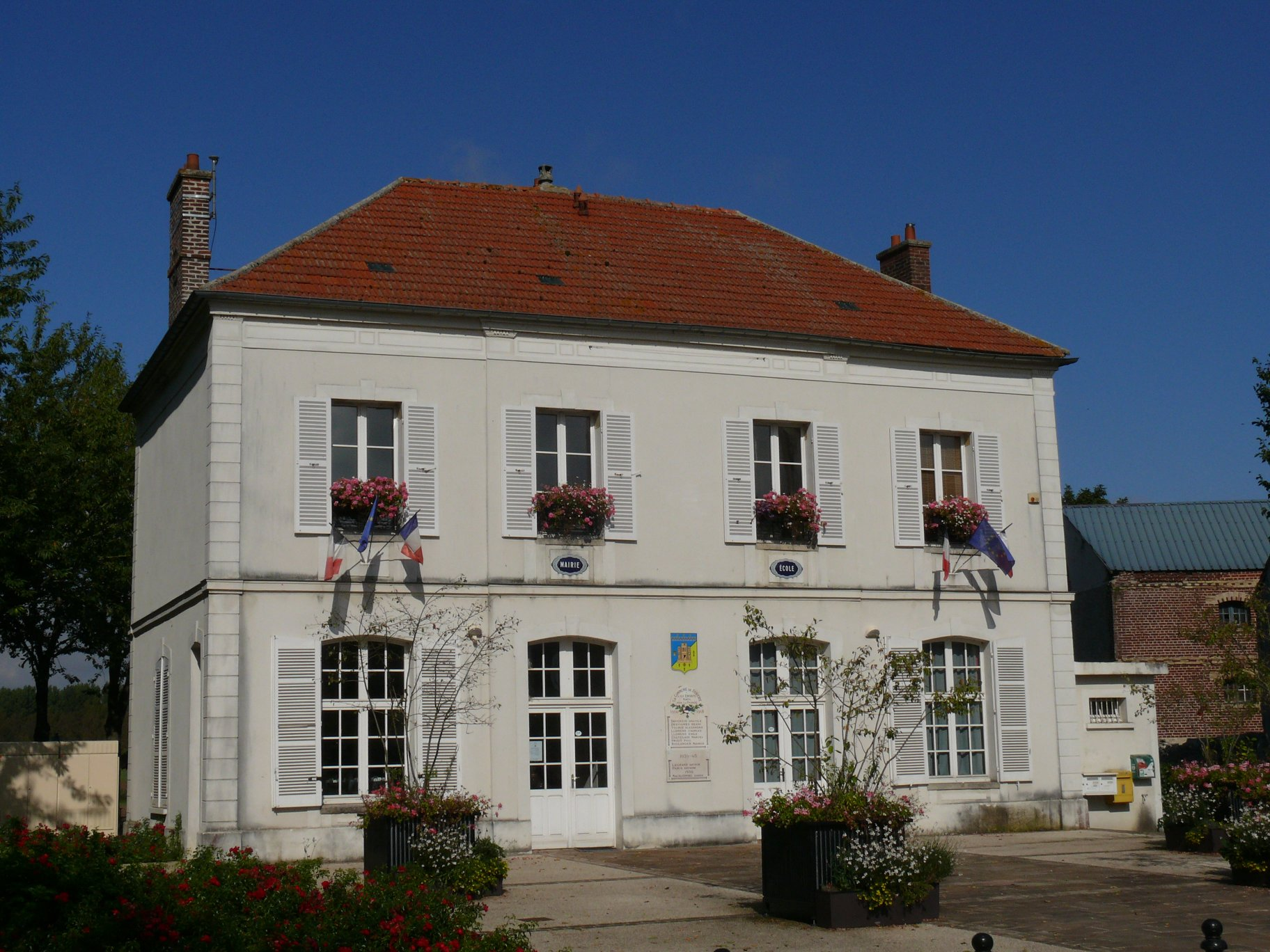 The city hall of Forfry (Seine-et-Marne, Île-de-France, France).